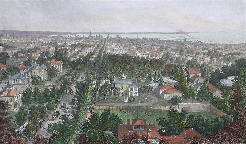 City of Buffalo, a steel engraving from a study by A. C. Warren, engraved by W. Wellstood and published in Picturesque America, D. Appleton & Company, New York, New York 1873.